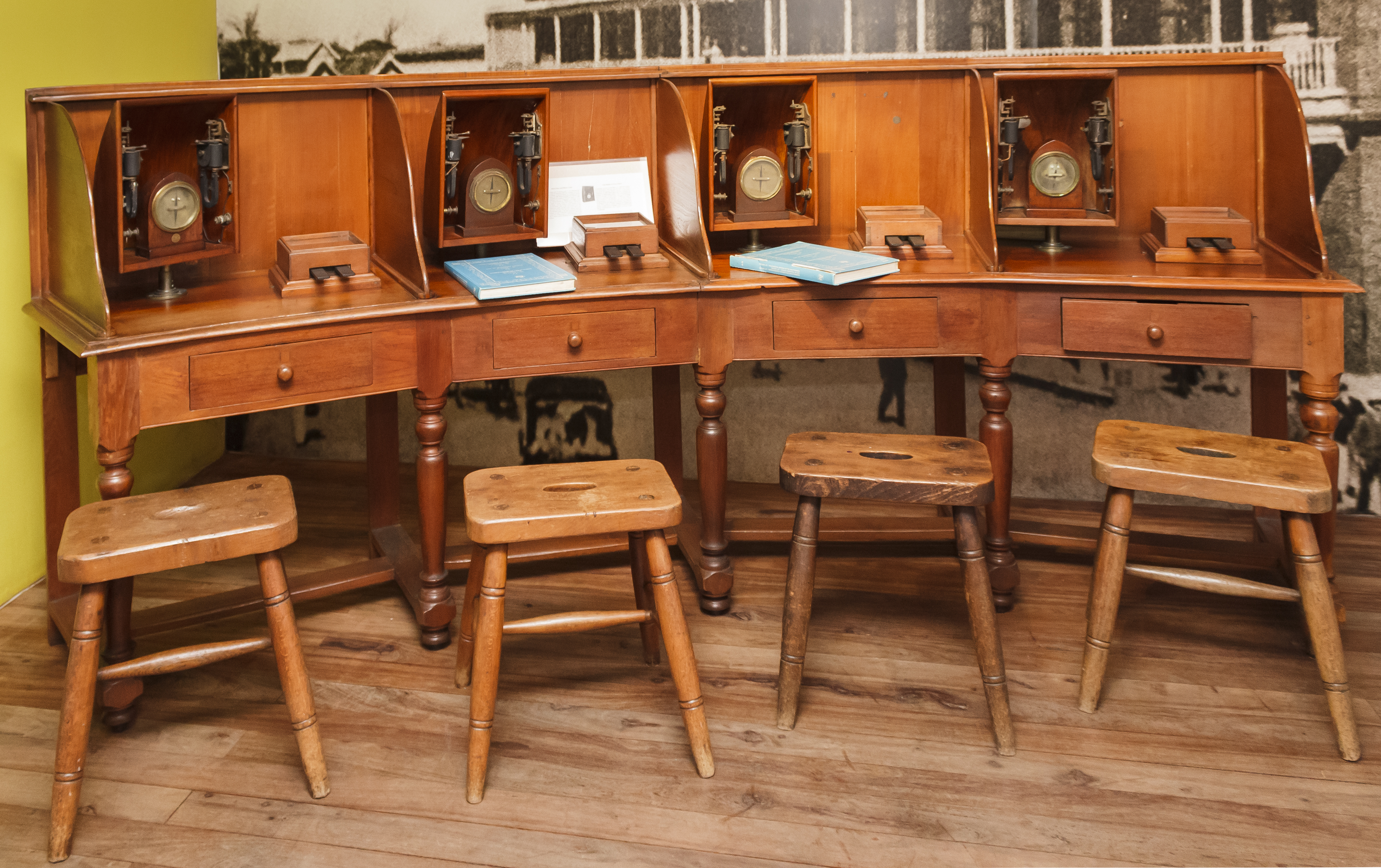 St. Louis, Mauritius: The telegraphy station of the old Mauritius Post Office (today part of the Mauritius Postal Museum)